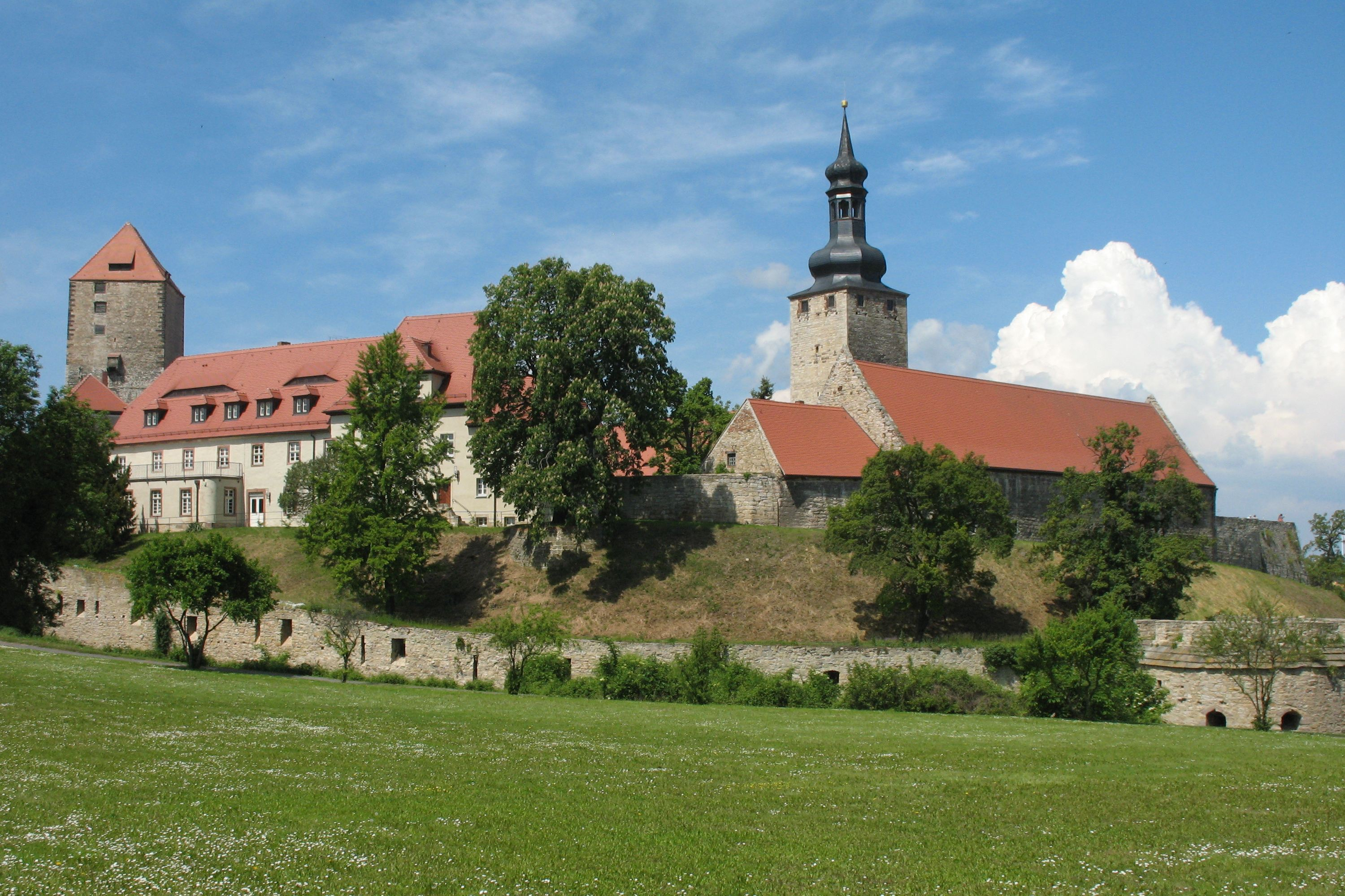 Castle in Querfurt in Saxony-Anhalt, Germany